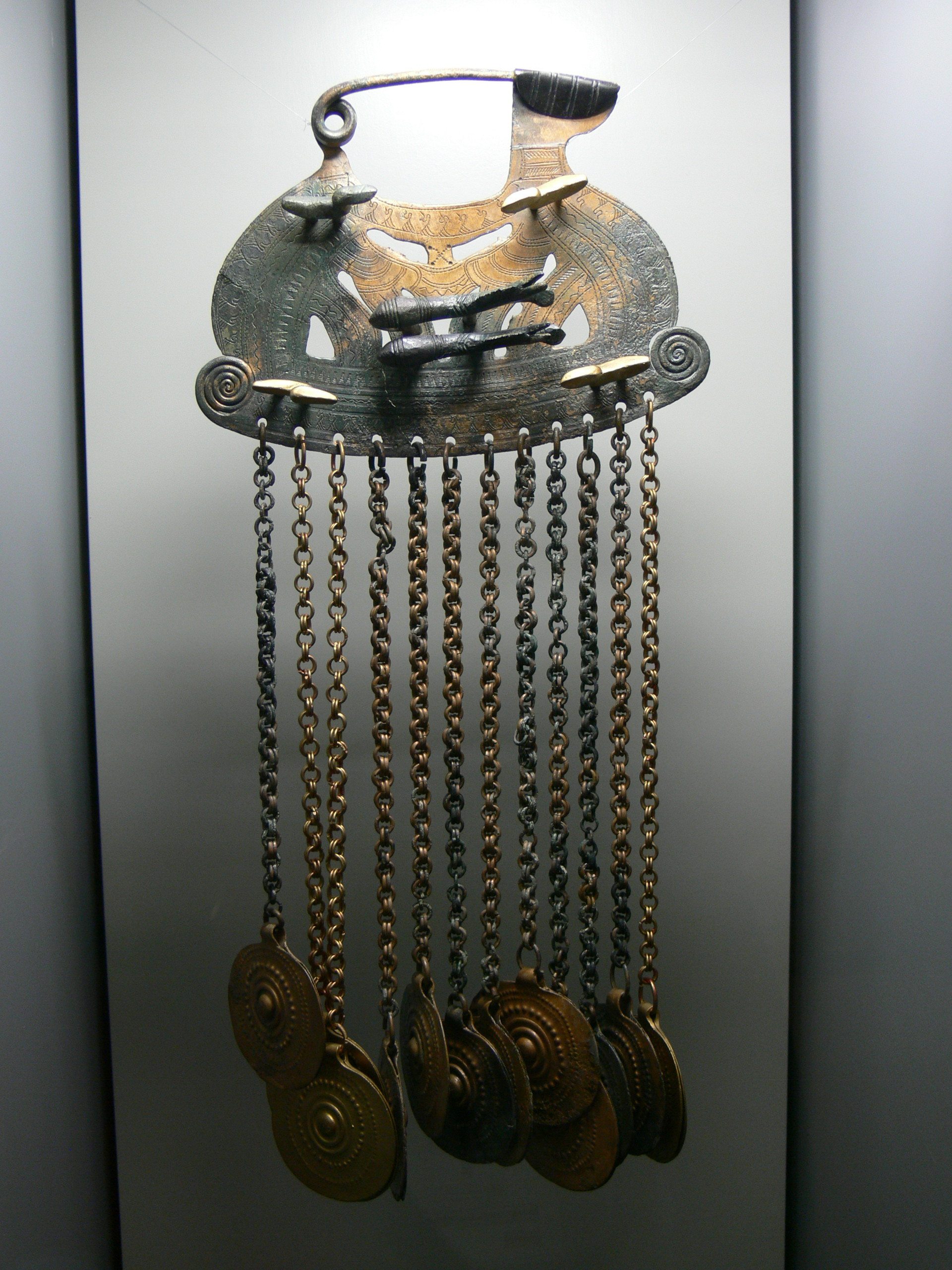 Castle museums in Linz ( Upper Austria ). Archeological collection: Celtic fibula from Hallstatt, Hallstatt culture.